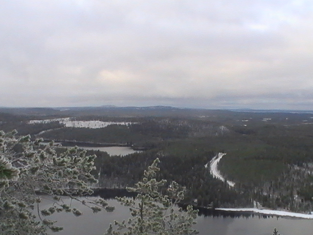 The view from Konttainen hill at Kuusamo, Finland.